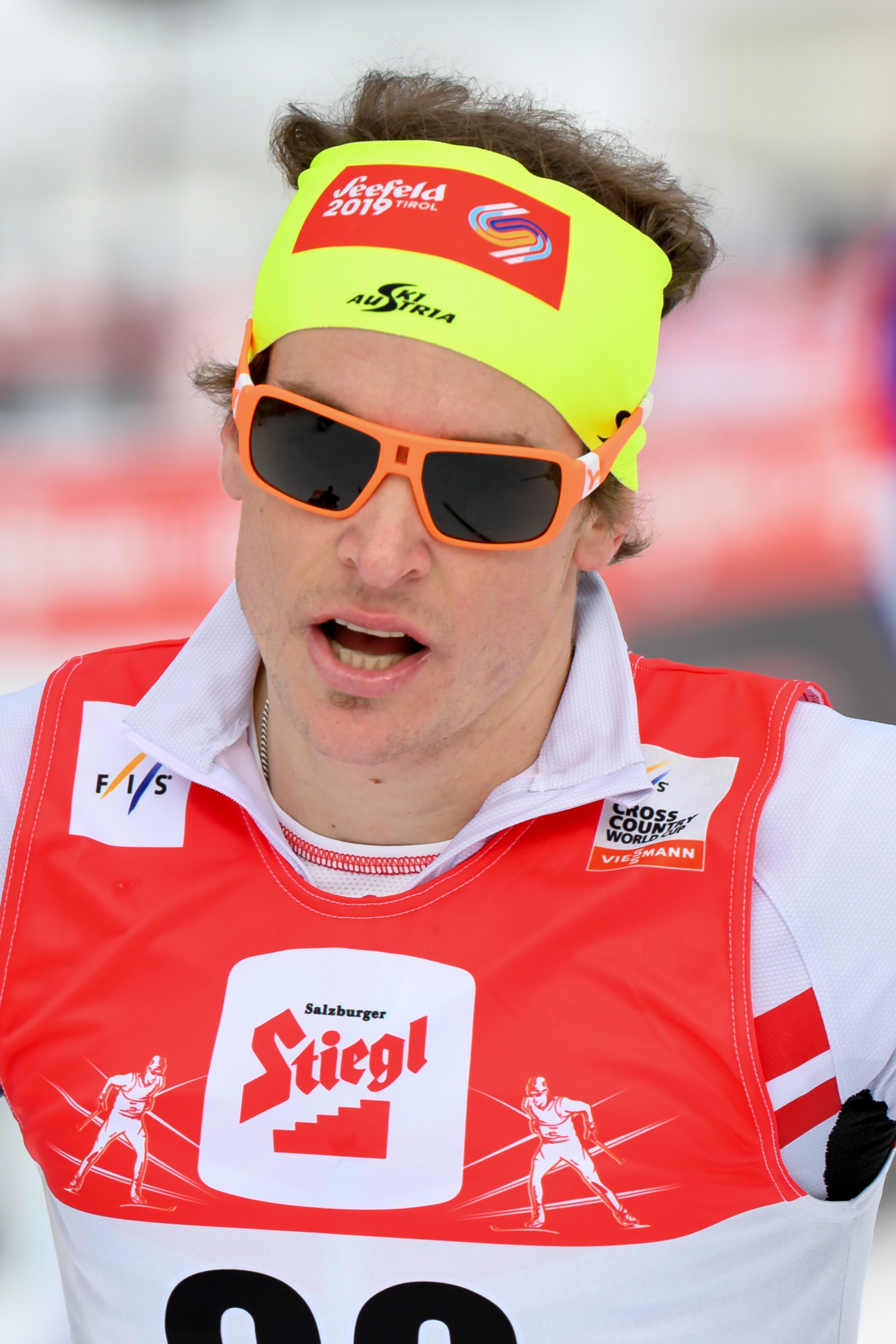 Seefeld-Triple 2018, third day January 28th. Picture shows TRITSCHER Bernhard (AUT).